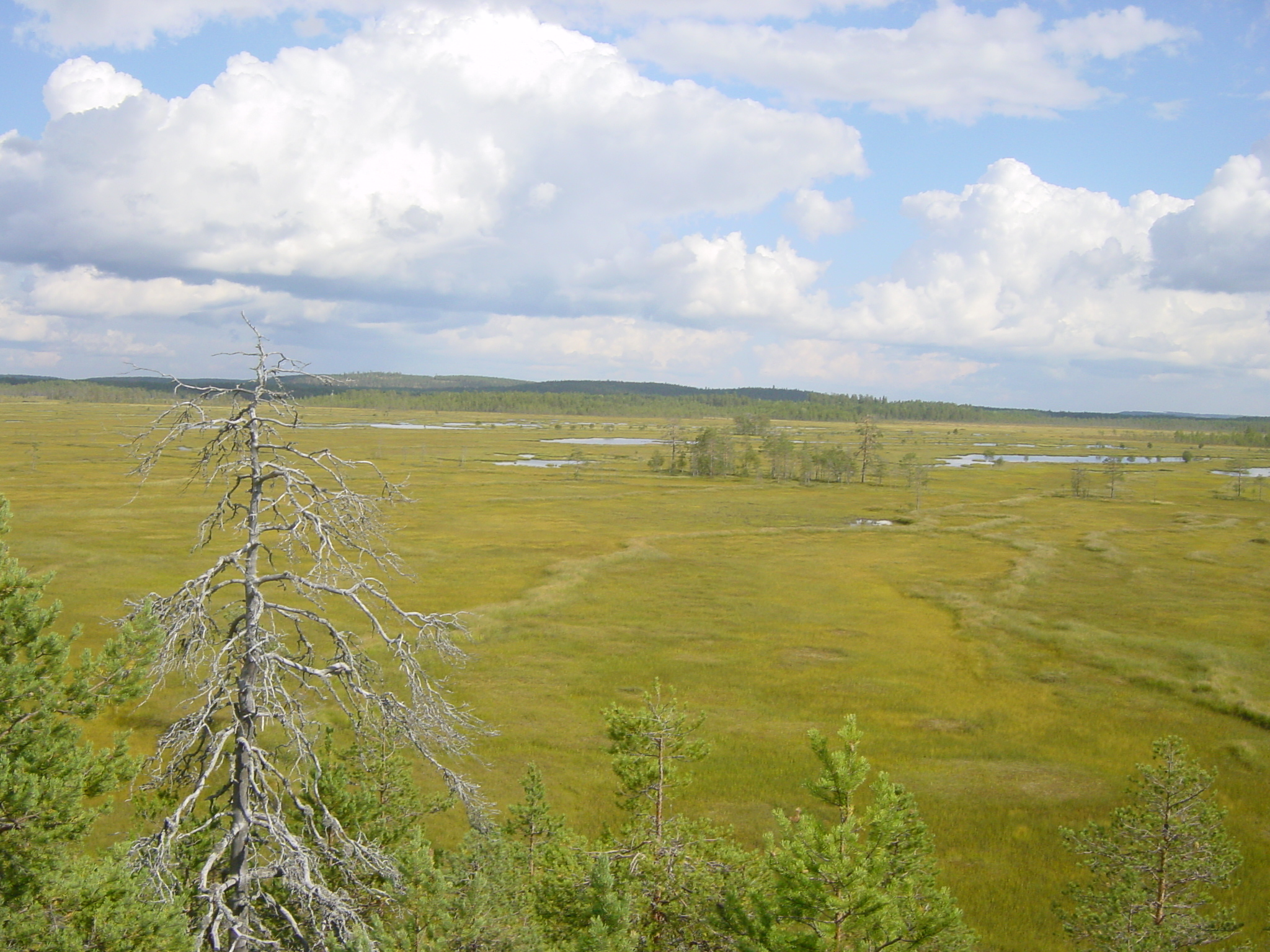 Survey shot of the swamps in the Patvinsuo National Park in Finland. Taken from the bird tower at Suomunsaari.